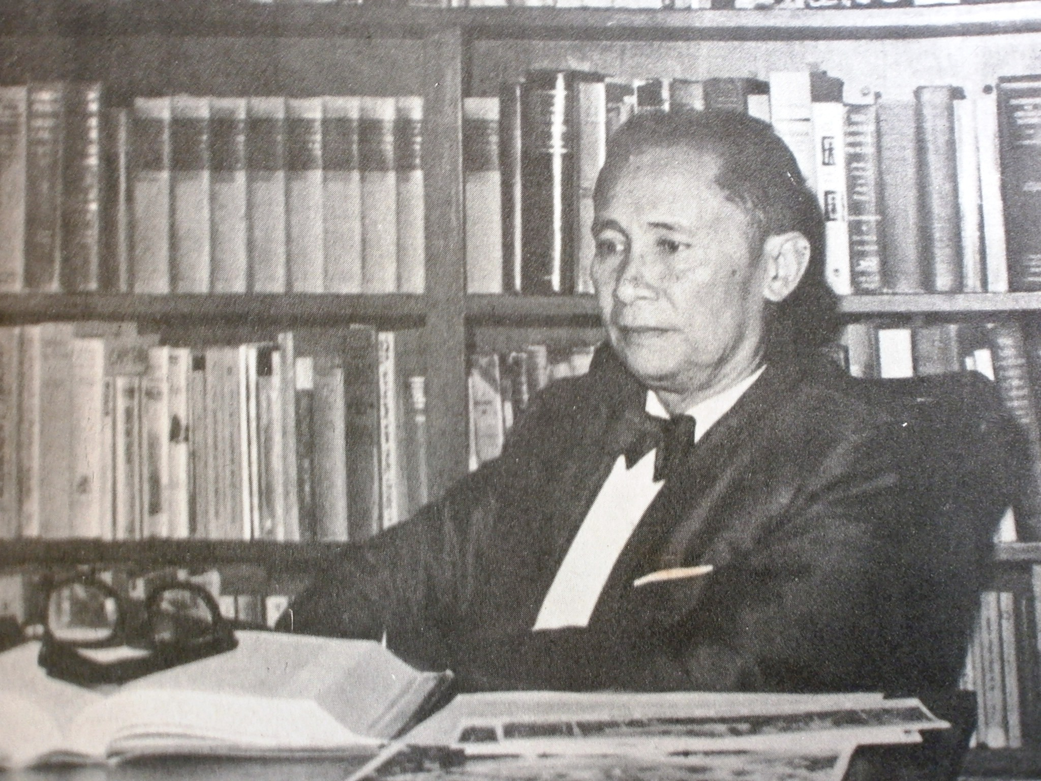 Rex A. Drilon (Central Philippine University Head)